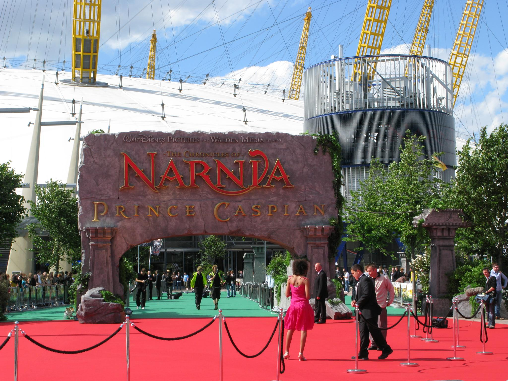 Entrance to The Chronicles of Narnia: Prince Caspian premiere at the O2.